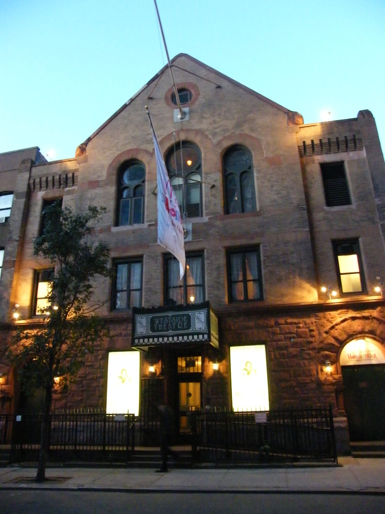 Westside Arts Theatre